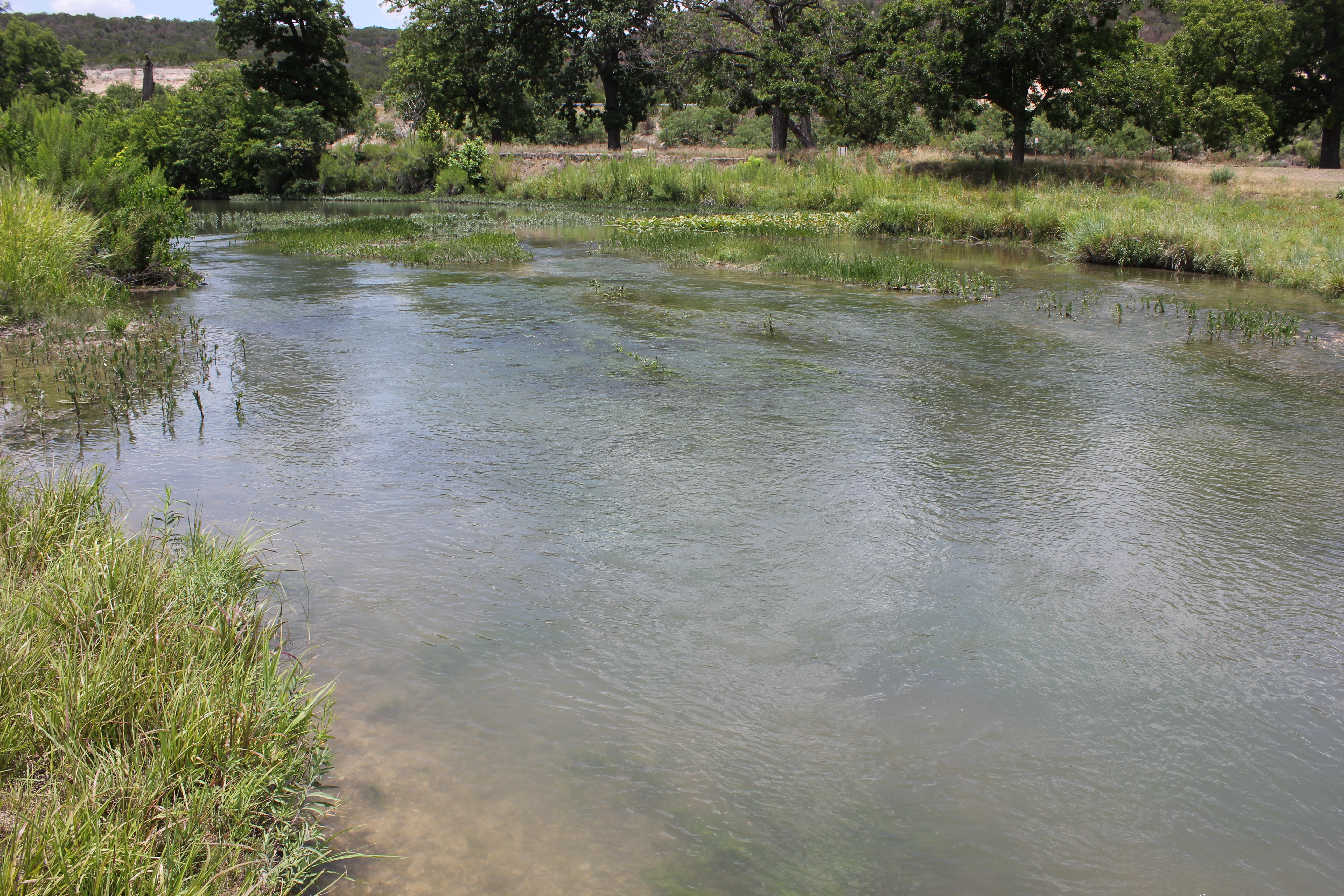 South Llano River State Park 3, Junction, Texas